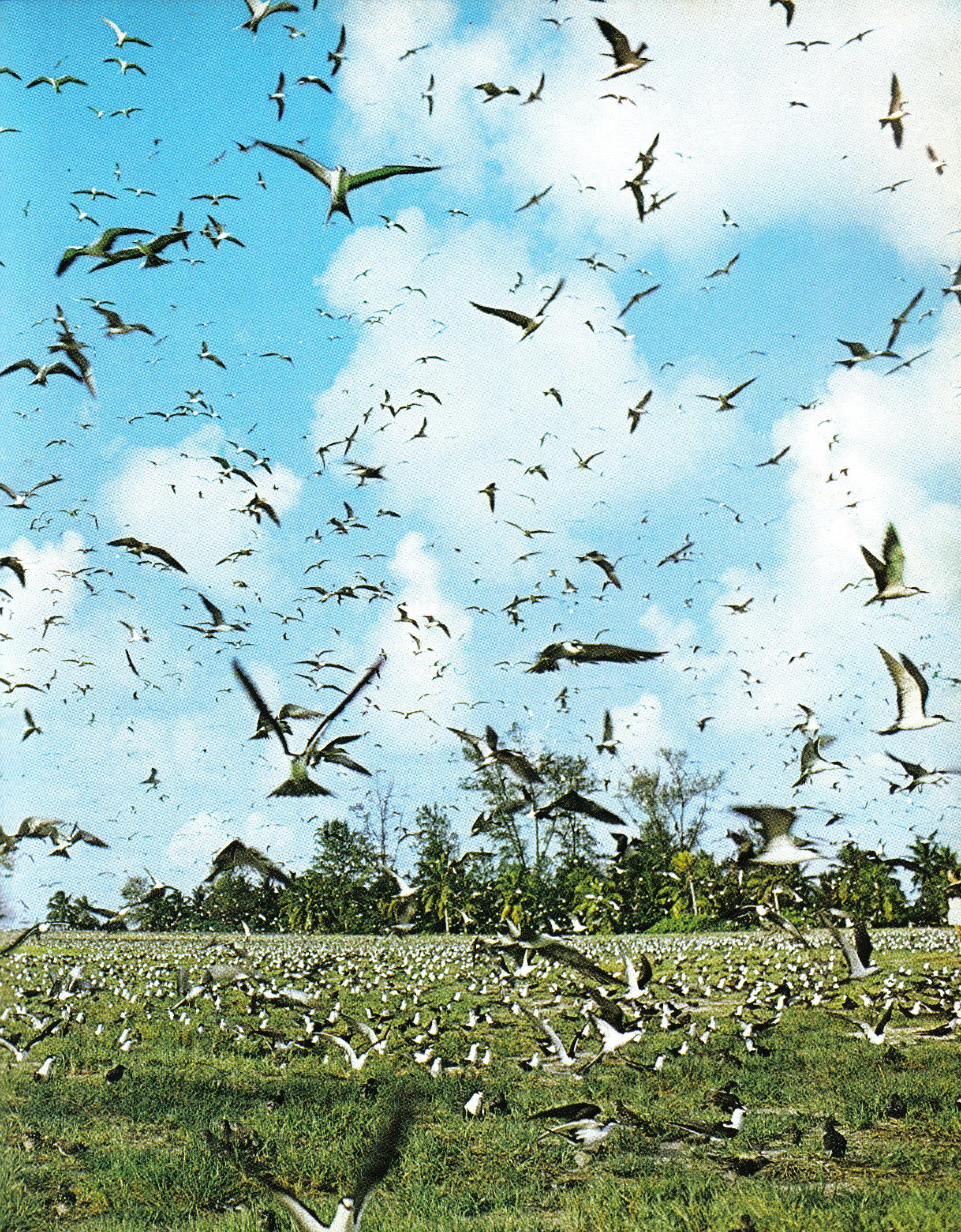 Flocks of Sooty Terns Onychoprion fuscatus on Bird Island, Seychelles